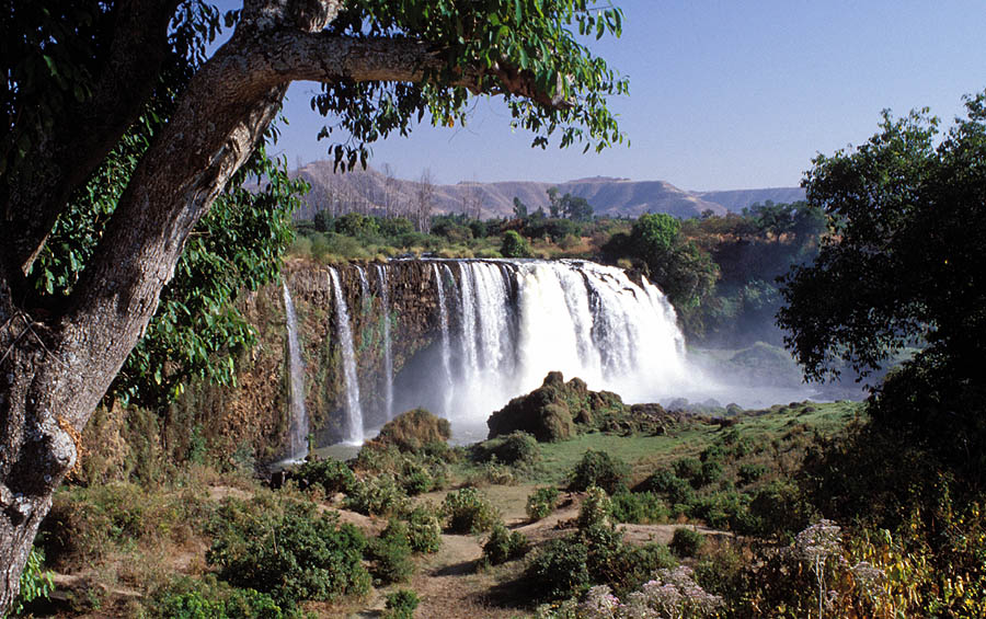 The Blue Nile Falls fed by Lake Tana near the city of Bahar Dar, Ethiopia forms the upstream of the Blue Nile. It is also known as Tis Issat Falls after the name of the nearby village.